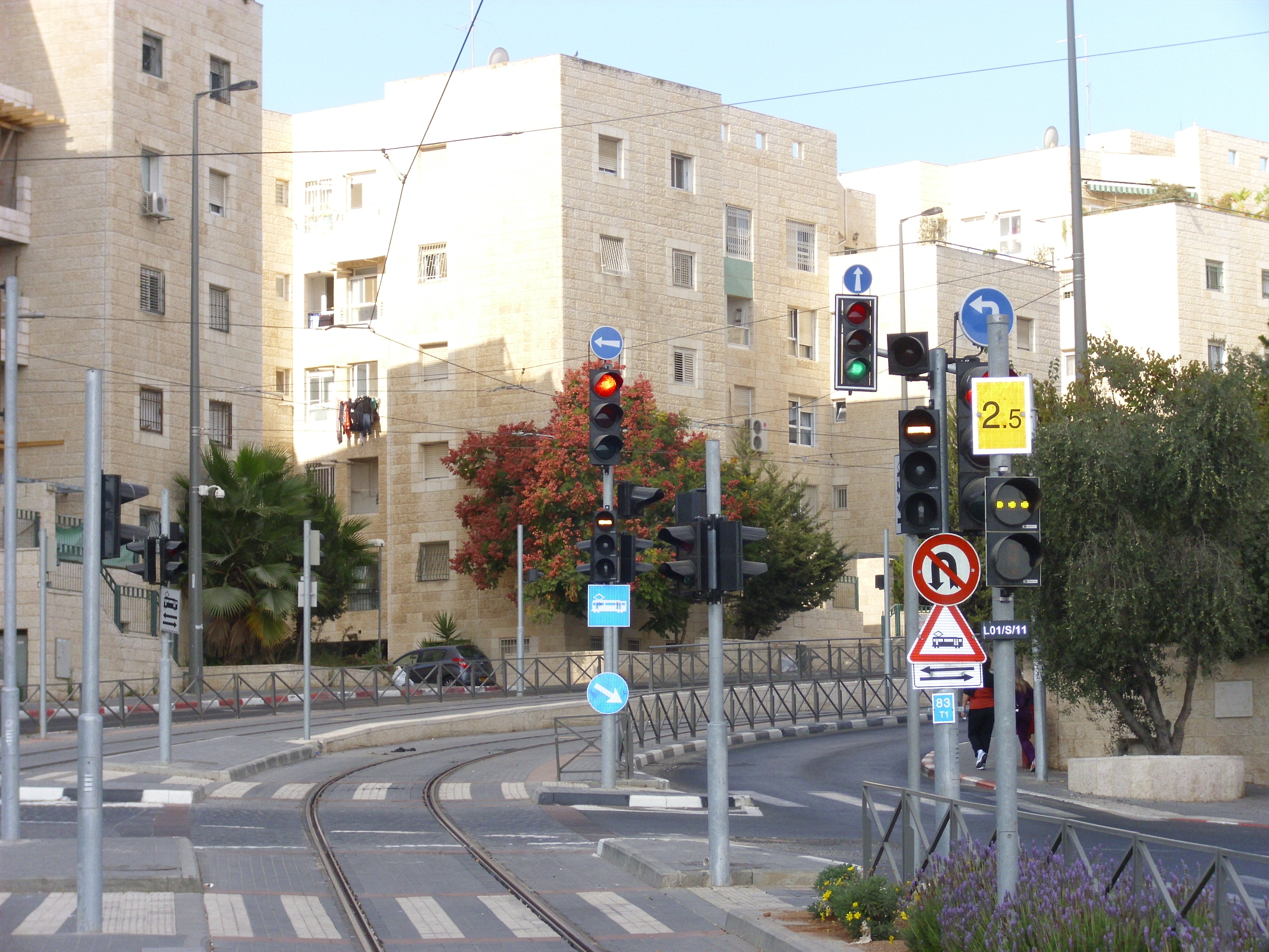 Traffic signs at Terminus Pisgat Zeev